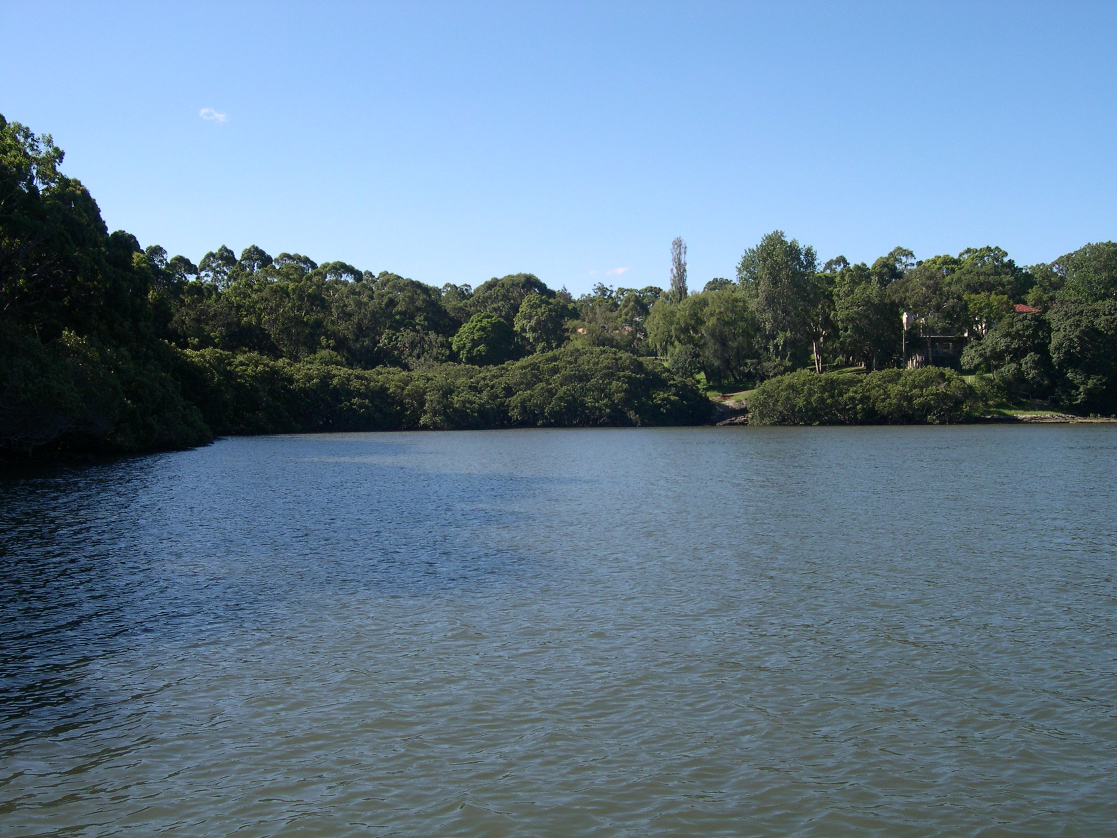 Tambourine Bay from Lane Cove River near Sydney